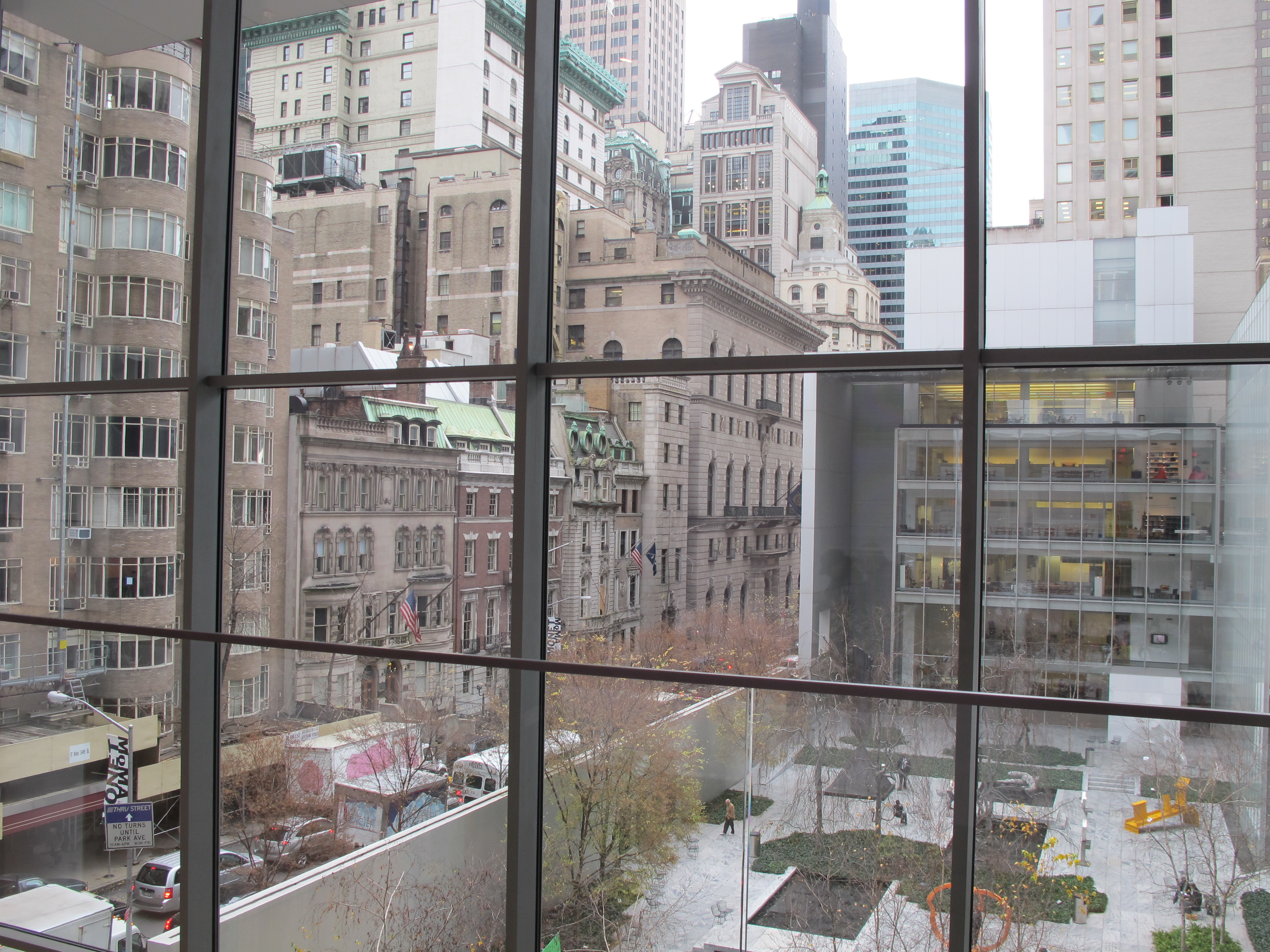 Looking east, Manhattan, New York City